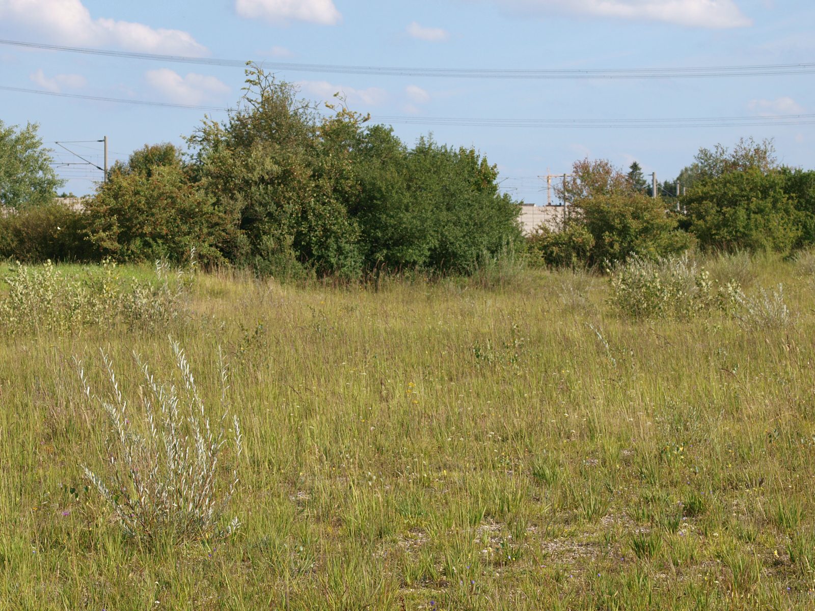 Kissinger Bahngruben (compensation area on limestone gravel with abraded surface soil)